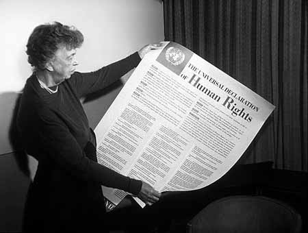 Former U.S. First Lady Eleanor Roosevelt with the English version of the United Nations Universal Declaration of Human Rights